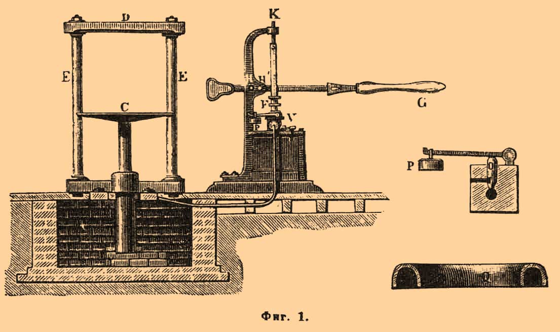 Illustration from Brockhaus and Efron Encyclopedic Dictionary (1890—1907)